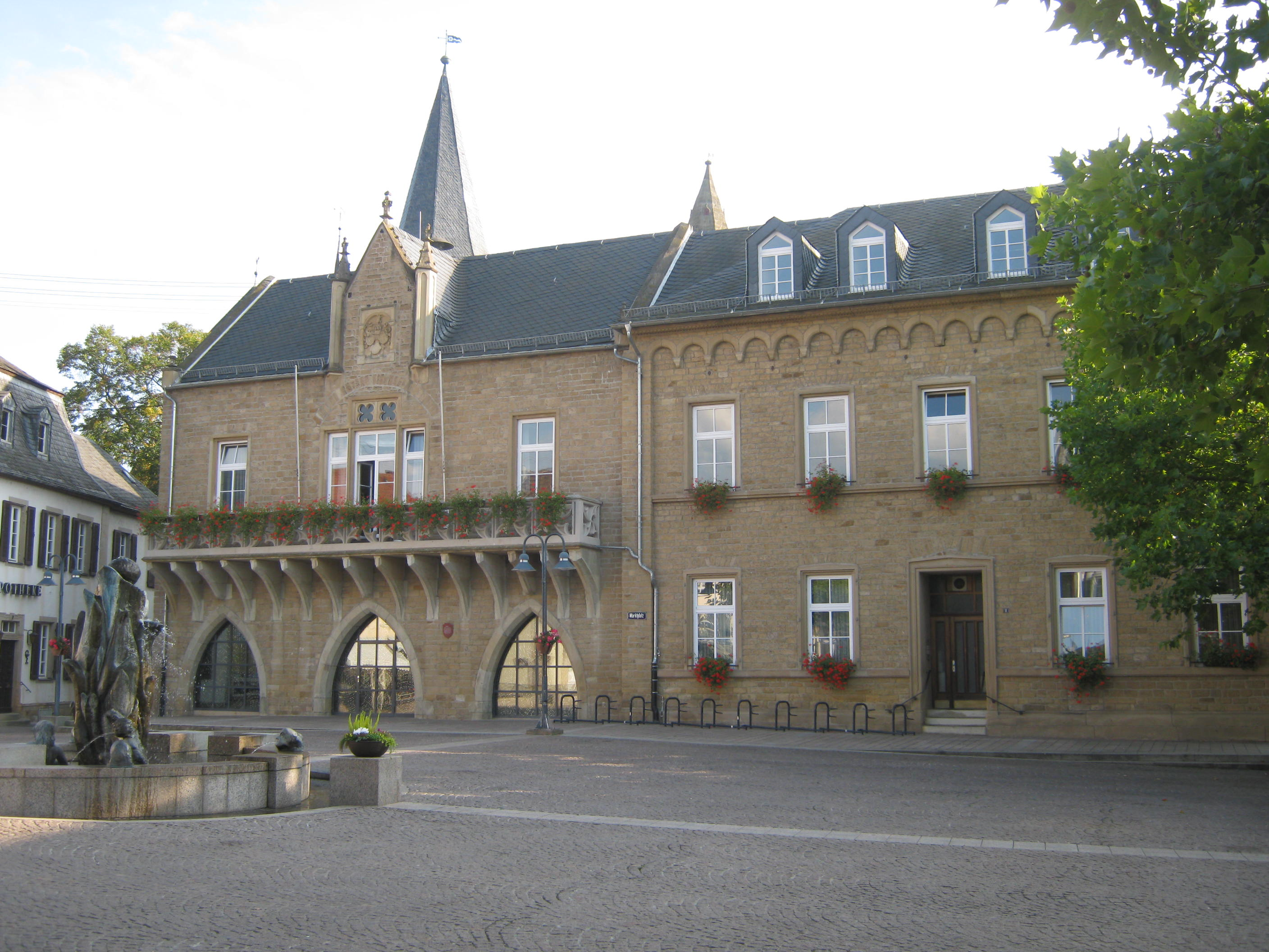 Bad Sobernheim